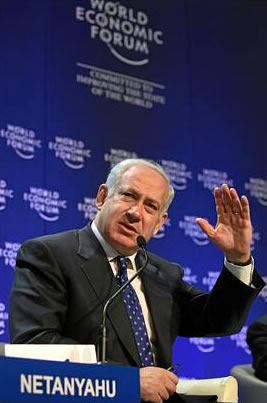 DAVOS-KLOSTERS/SWITZERLAND, 29JAN09 - Benjamin Netanyahu, Leader of the Likud Party, Israel, speaks during the session 'Crisis, Community and Leadership' at the Annual Meeting 2009 of the World Economic Forum in Davos, Switzerland, January 29, 2009. Copyright by World Economic Forum.